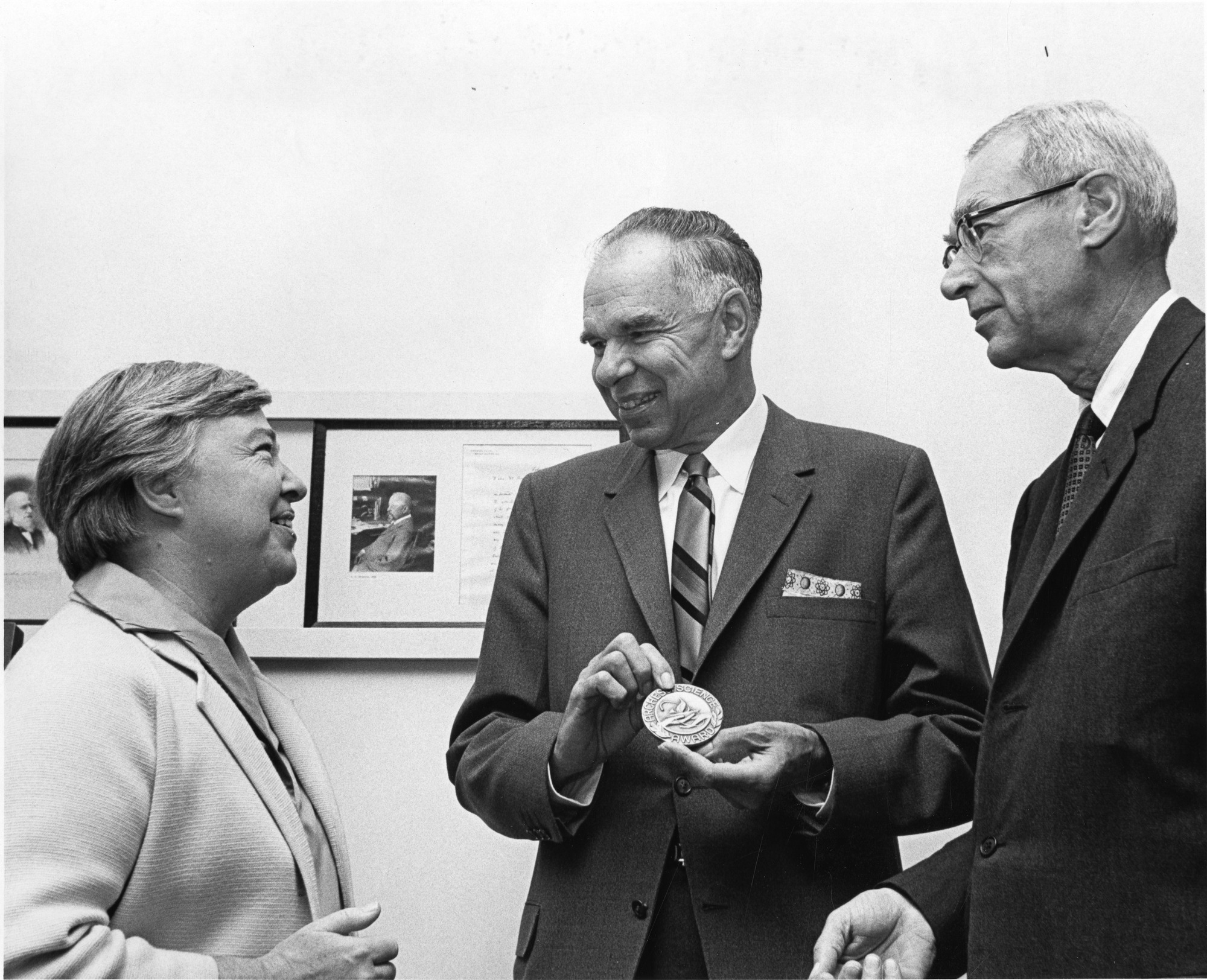 Subject: Ray, Dixy Lee Seaborg, Glenn Theodore 1912-1999 Westcott, Ed University of Washington Pacific Science Center U.S. Atomic Energy Commission Type: Black-and-white photographs Date: 1968 9/17/1968 Topic: Marine biology Chemistry Women scientists Local number: SIA Acc. 90-105 [SIA2009-3054] Summary: left to right: Marine biologist Dixy Lee Ray (1914-1994), chemist Glenn Theodore Seaborg (1912-1999), and Ed Westcott, September 17, 1968. Ray left a professorship at University of Washington to be director of the Pacific Science Center in Seattle, 1963-1972. When this photograph was taken in September 1968, Seaborg was receiving the Arches of Science award sponsored by the science center. Ray later served as chairman of the U.S. Atomic Energy Commission, 1973-1975, and as governor of Washington State, 1977-1981 Cite as: Acc. 90-105 - Science Service, Records, 1920s-1970s, Smithsonian Institution Archivess Persistent URL:Link to data base record Repository:Smithsonian Institution Archives View more collections from the Smithsonian Institution.